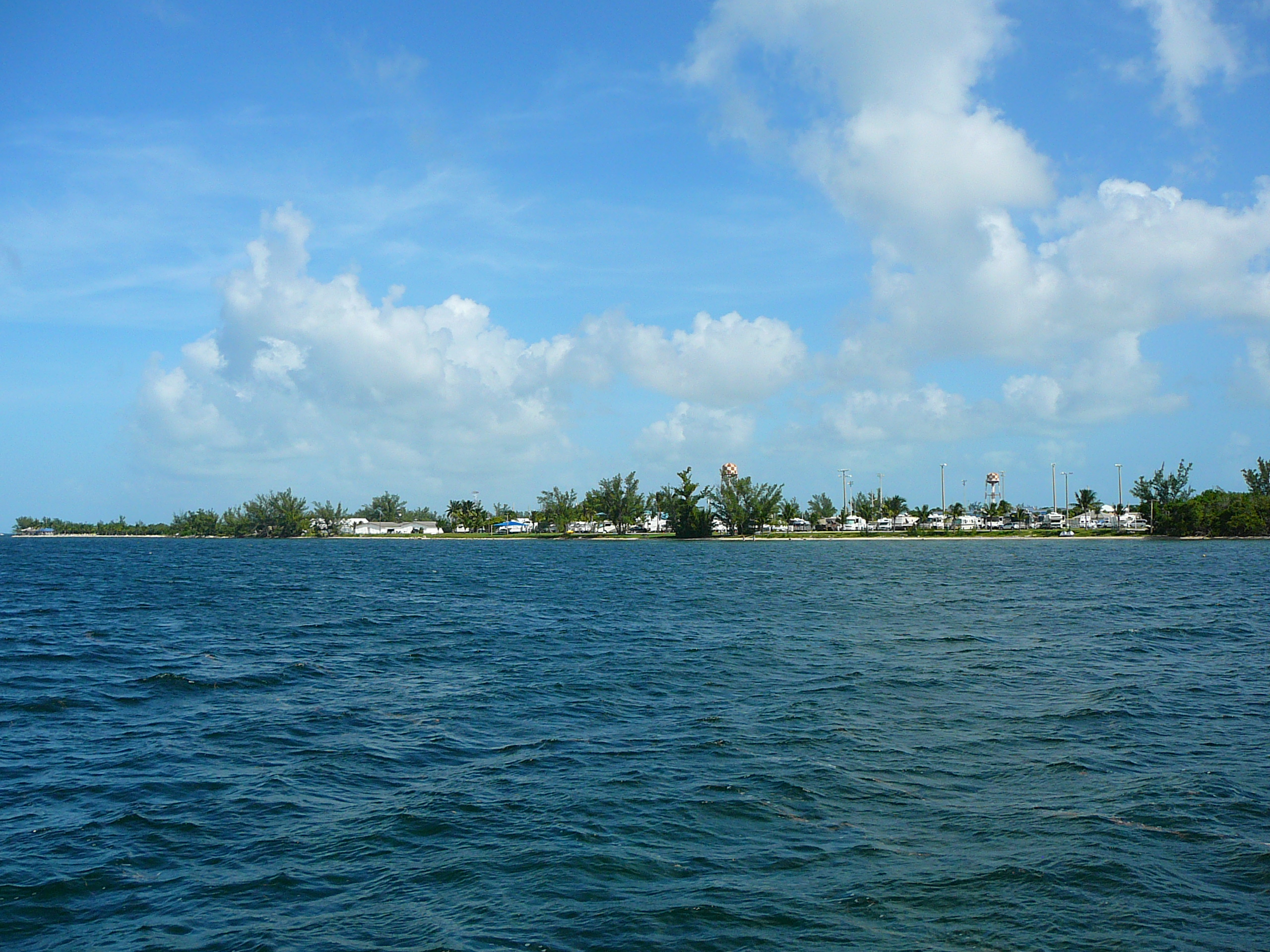 Sigsbee Park island just north of Key West, Florida as seen from the north.